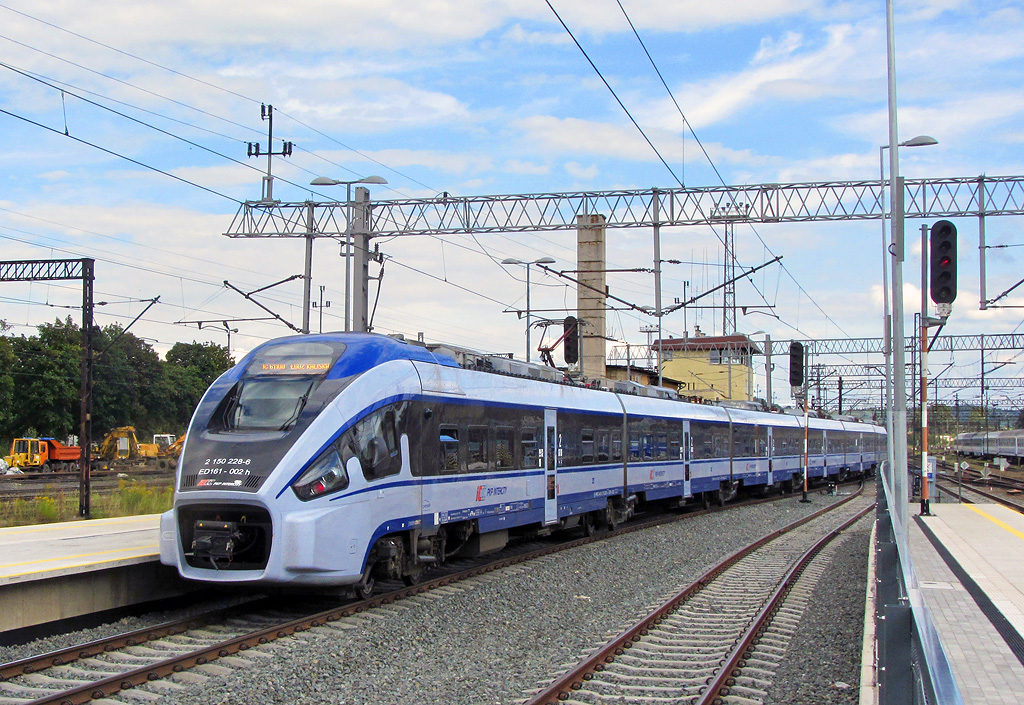 Electric unit Pesa Dart 002 PKP Intercity company leaves Jelenia Góra.